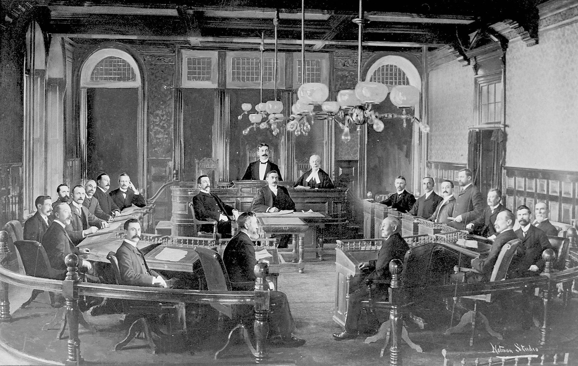 Picture of Halifax City Council, 1903.. Halifax, Canada.